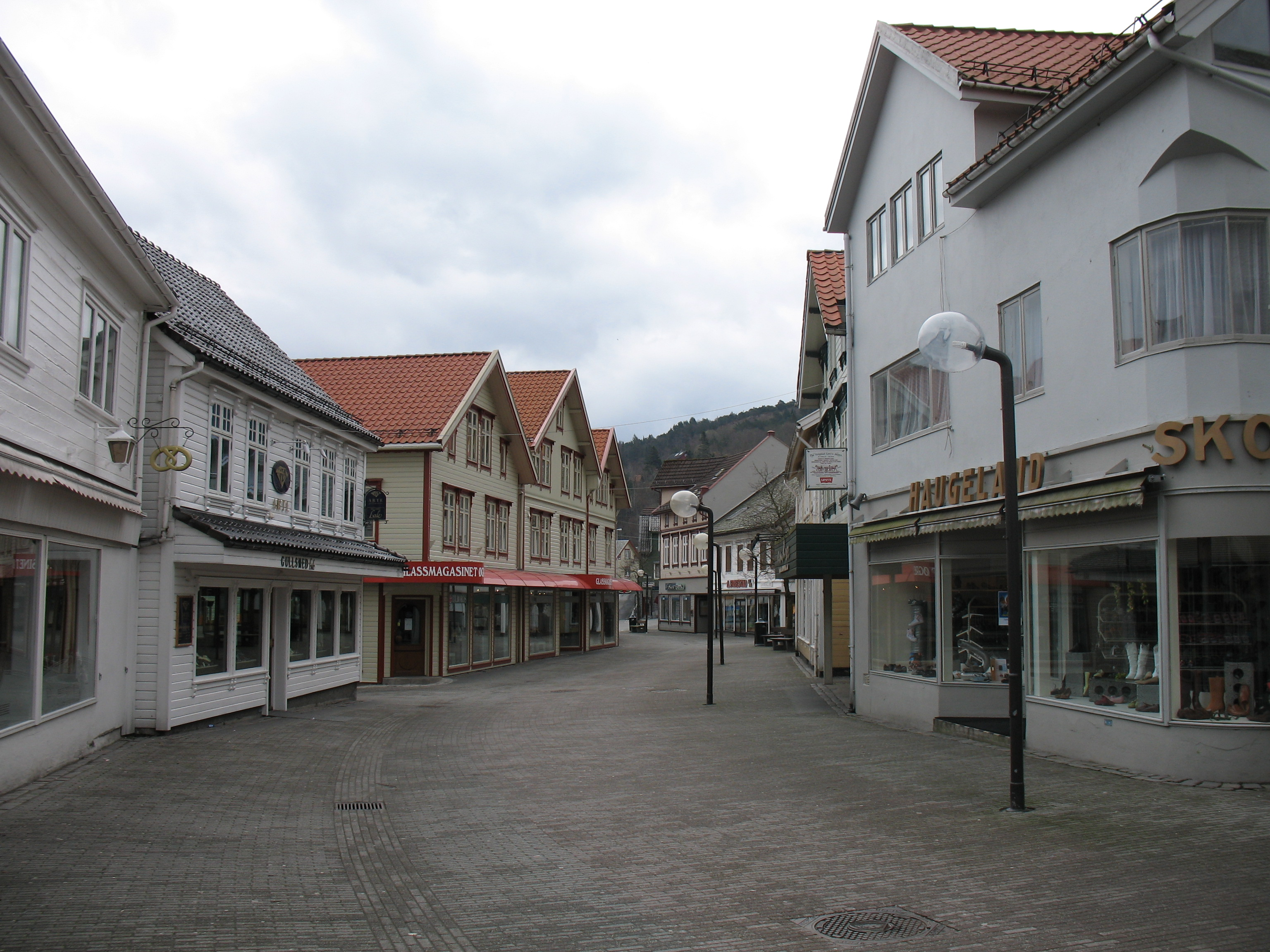 The main pedestrian street of Egersund, Norway